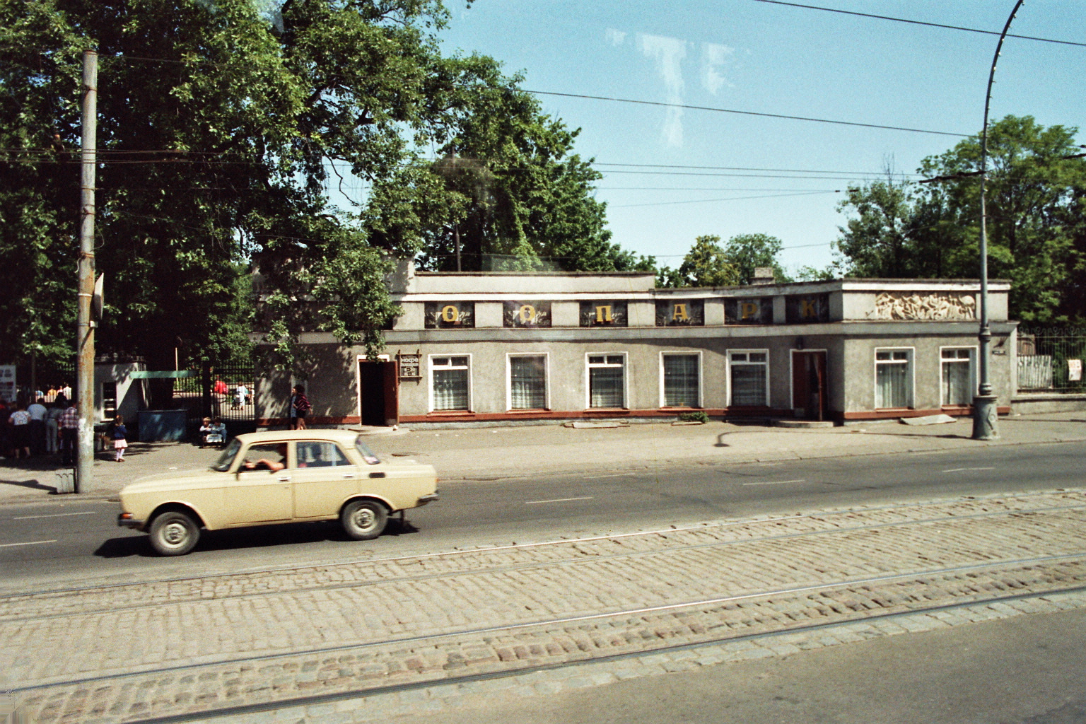 Kaliningrad zoo entrance, 1982